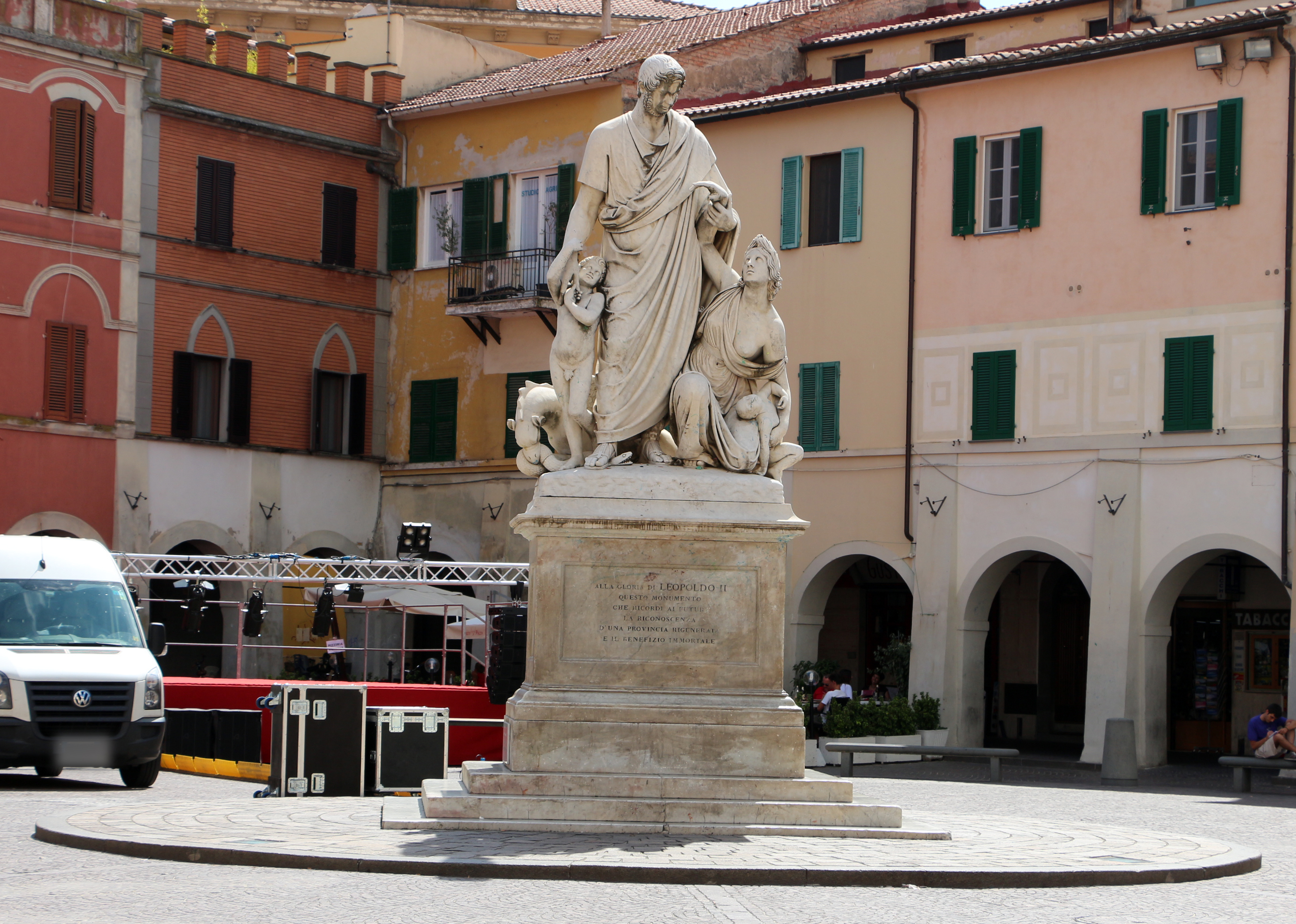 Grosseto